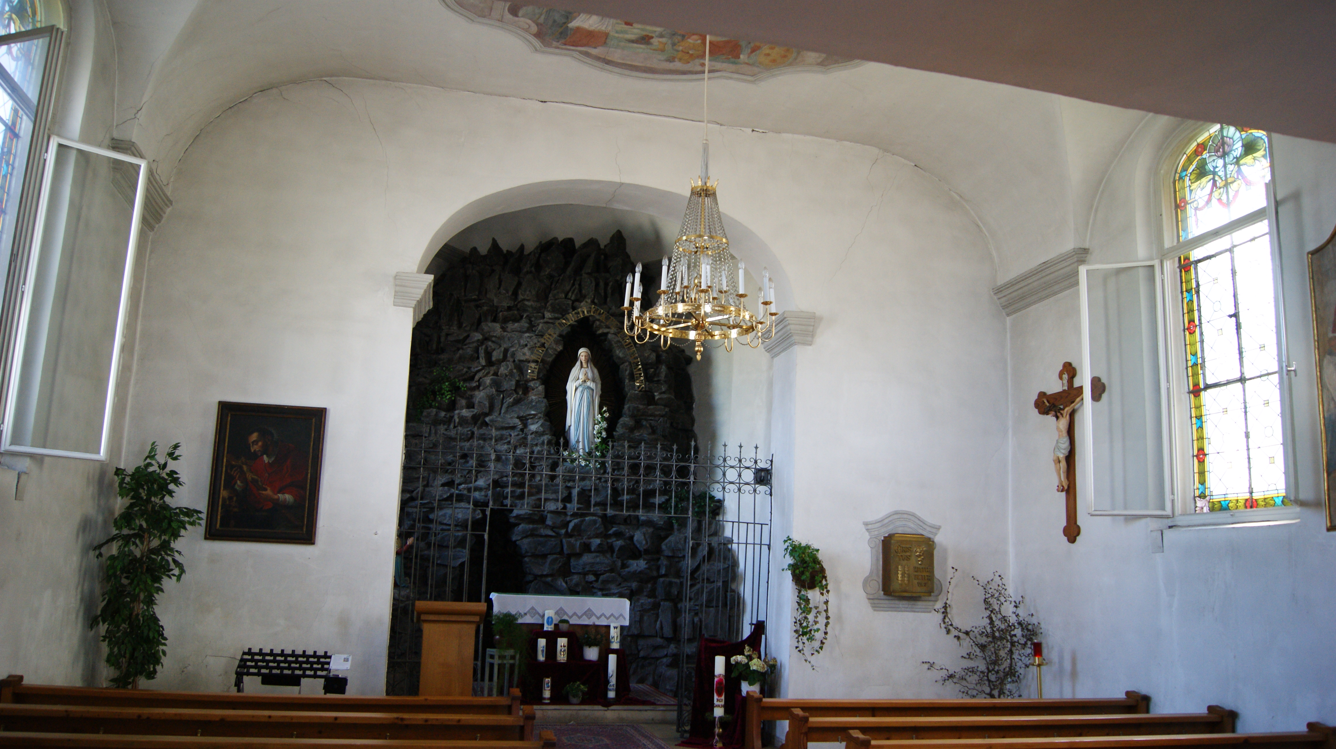 Chapel St Karl-Borromäus in Hohenems, Vorarlberg, Austria. Altar.